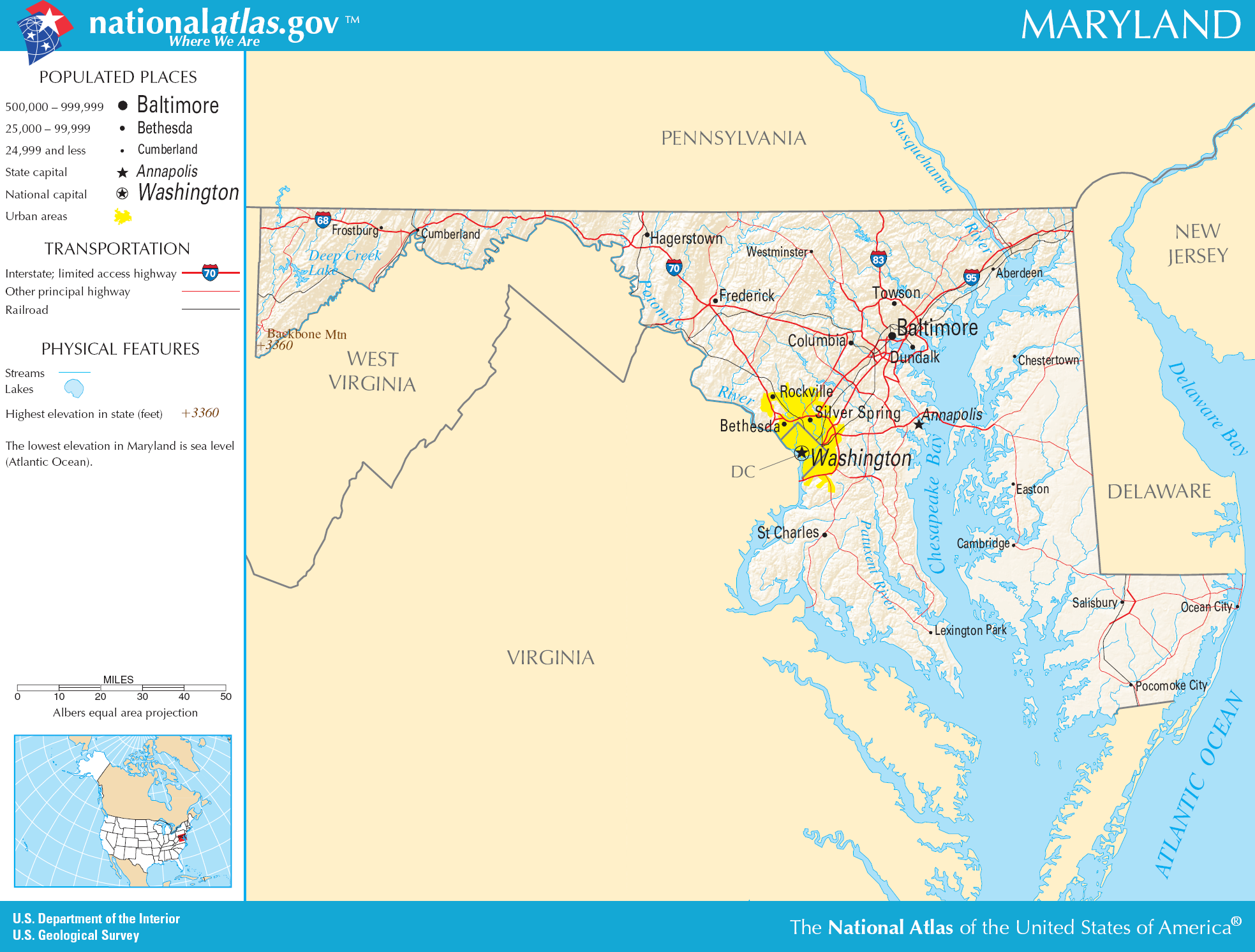 Map of Maryland.